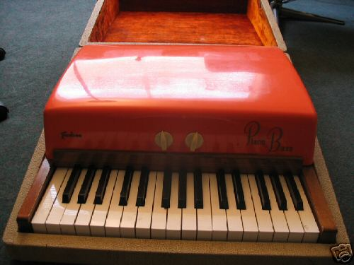 Rhodes Piano Bass